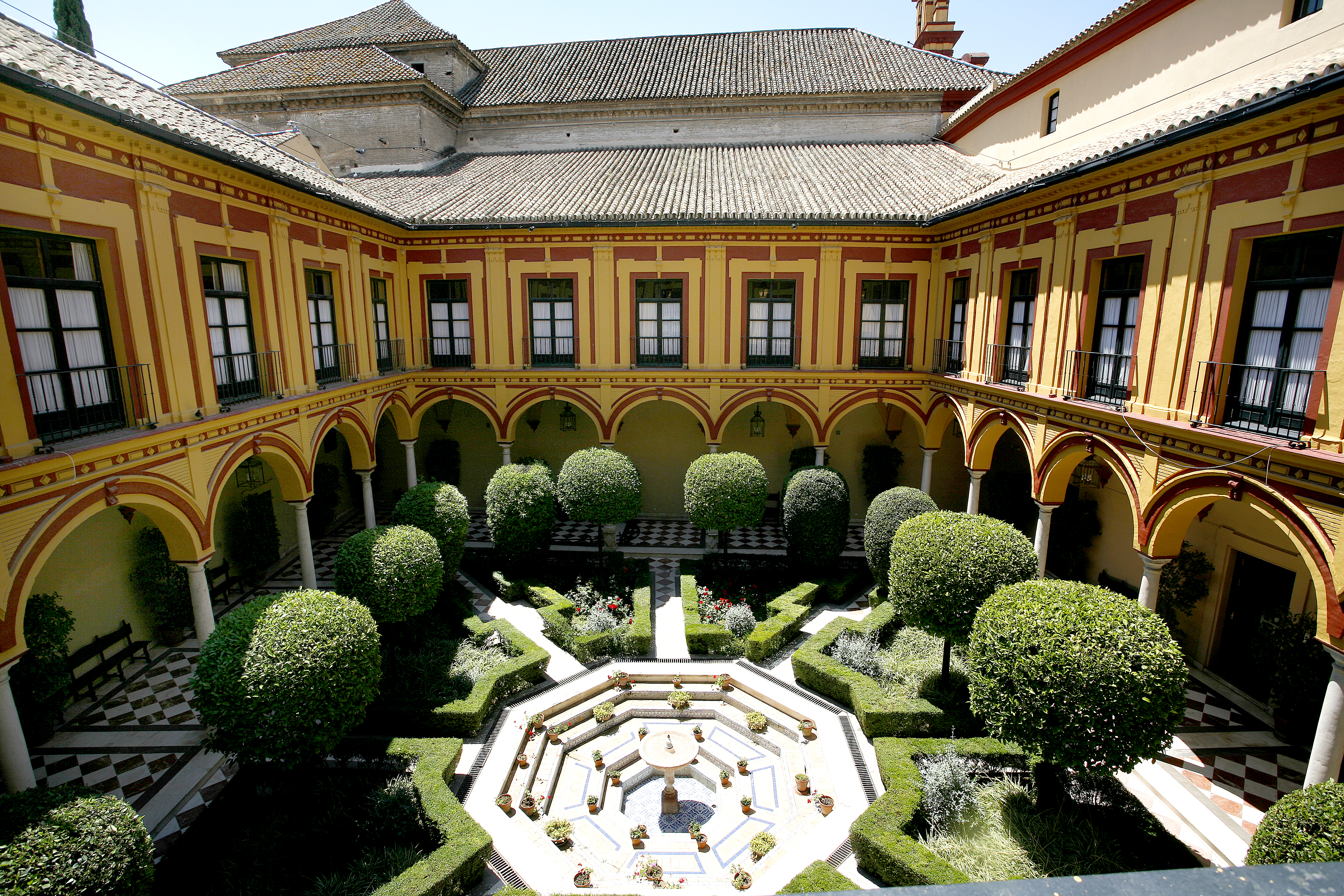 Former Palace of the Ponce of León, Emasesa's Headquarters.